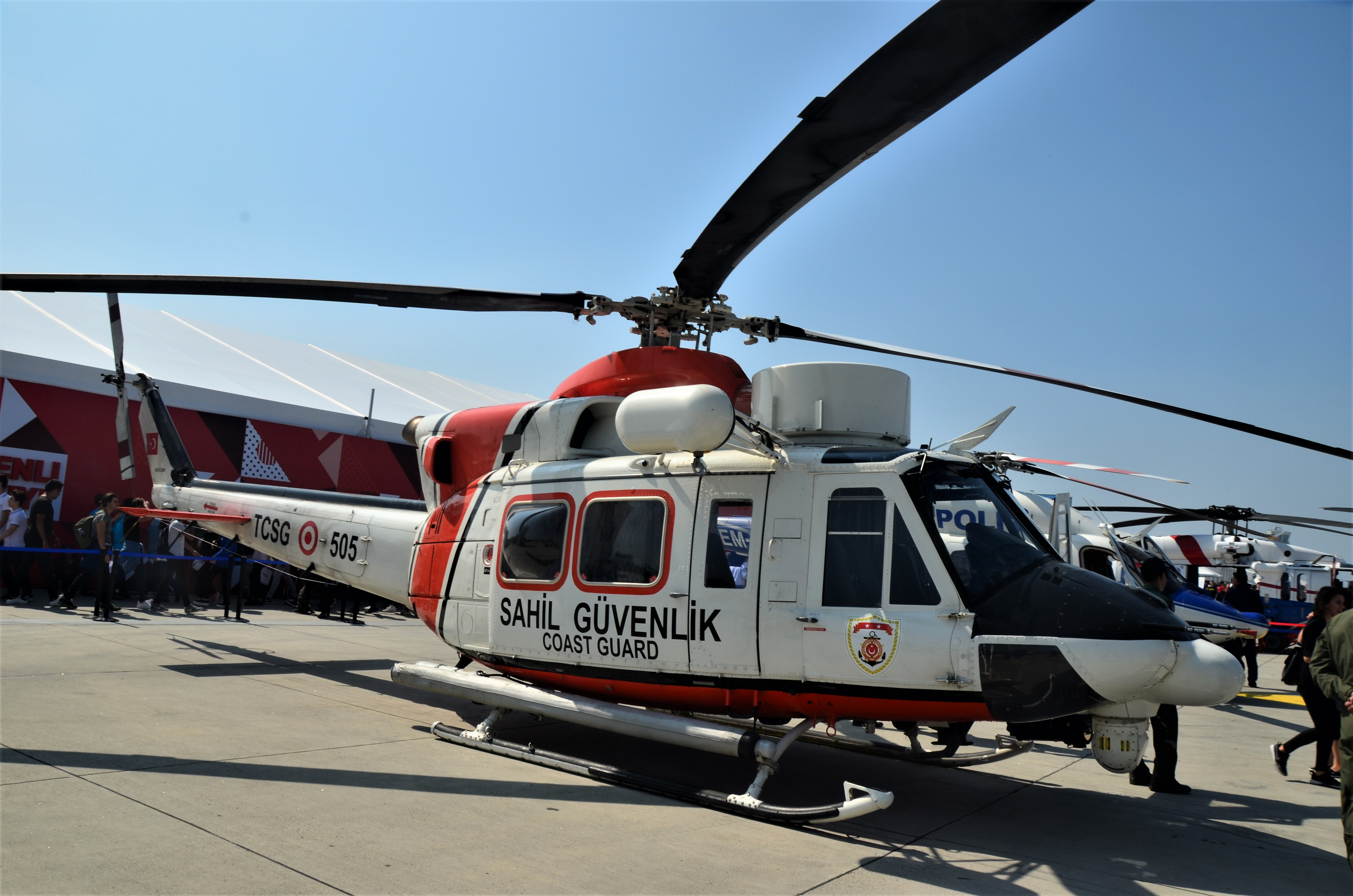 Bell 412 helcopter of the Turkish Coast Guard at Teknofest 2019